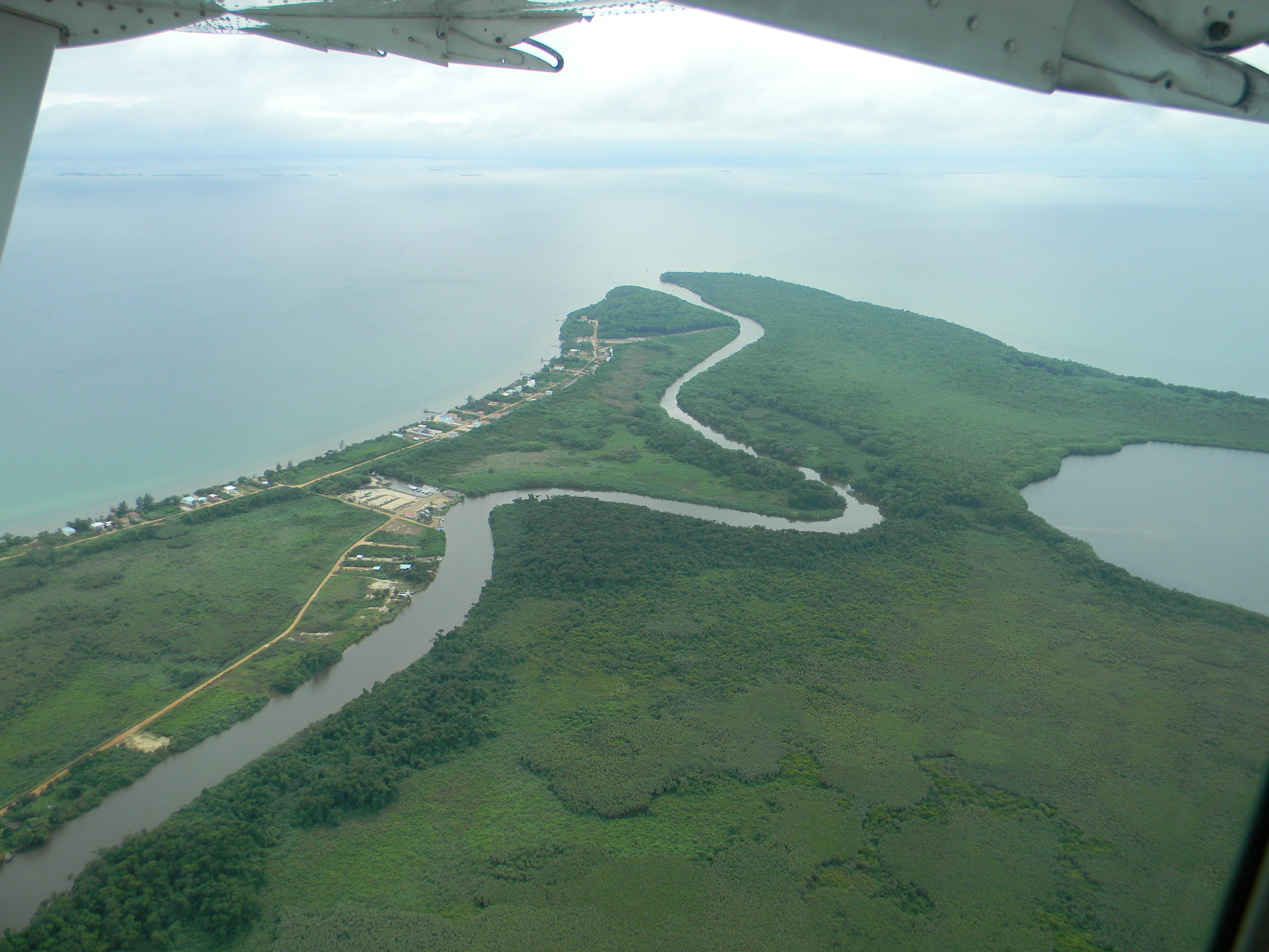 Aerial photographs of Belize, Placencia